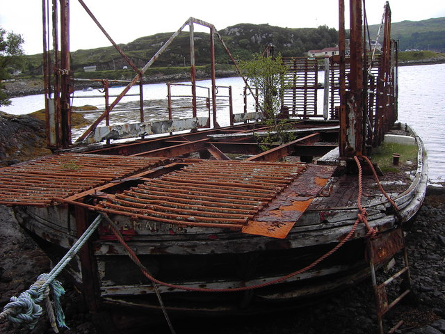 The derelict Kylesku ferry "The Maid of Kylesku". See the pictures in grid square NC2234 972573 994672 to see a similar ferry operating at the Kylesku crossing.